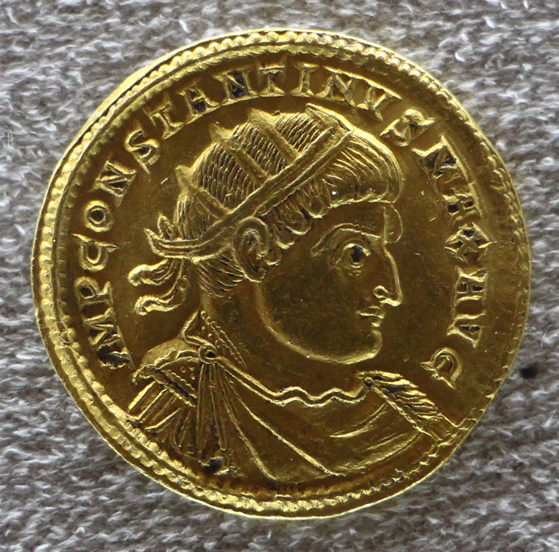 Ancient Roman medals in the Museo archeologico nazionale (Florence)